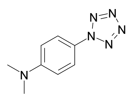 Structure of 4-dimethylaminophenylpentazole